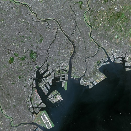 Tokyo by SPOT Satellite Removed Watermark: (c) Cnes - Distribution Spot Image